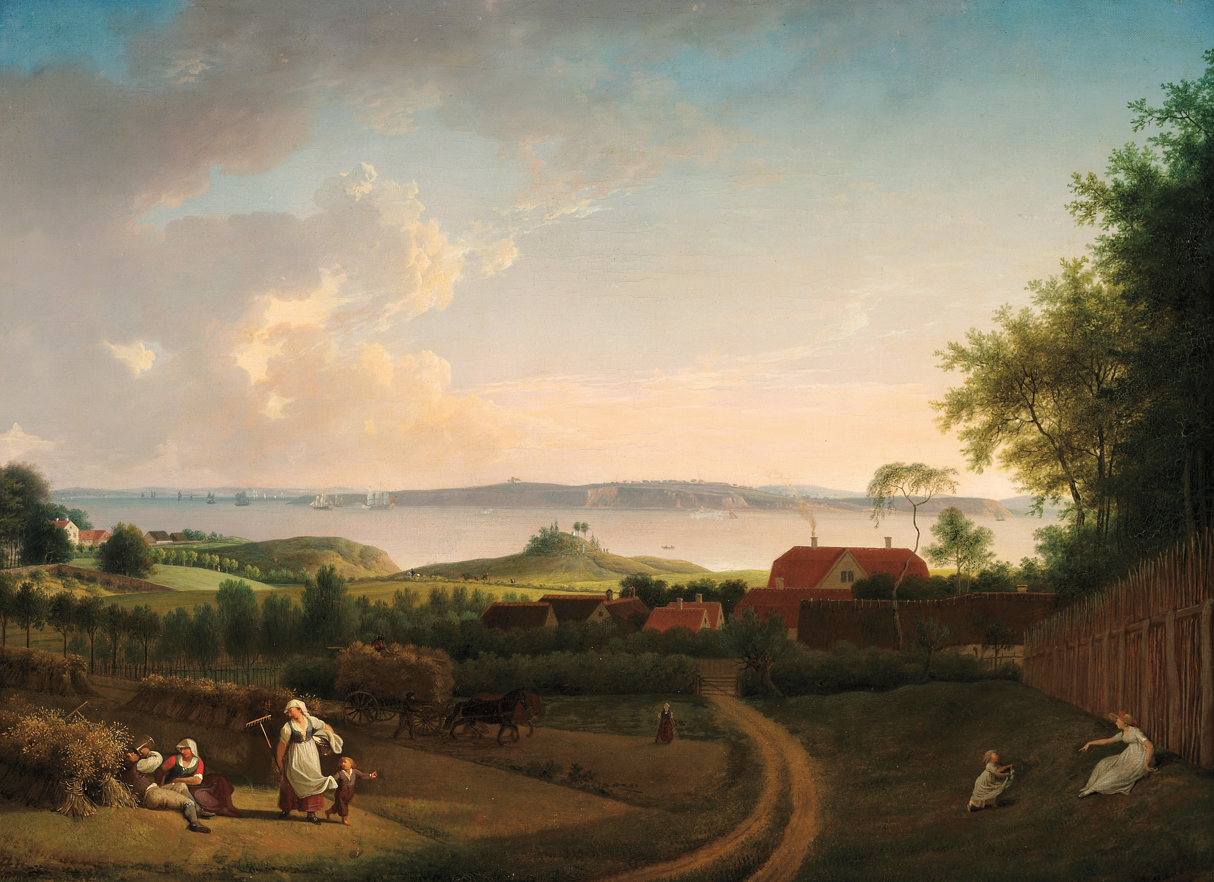 View of Aggershvile, Strandvejen and Øresund (The Sound) seen from a place near Mathildehøj (Mathilde Hill). In the background the island Hven.